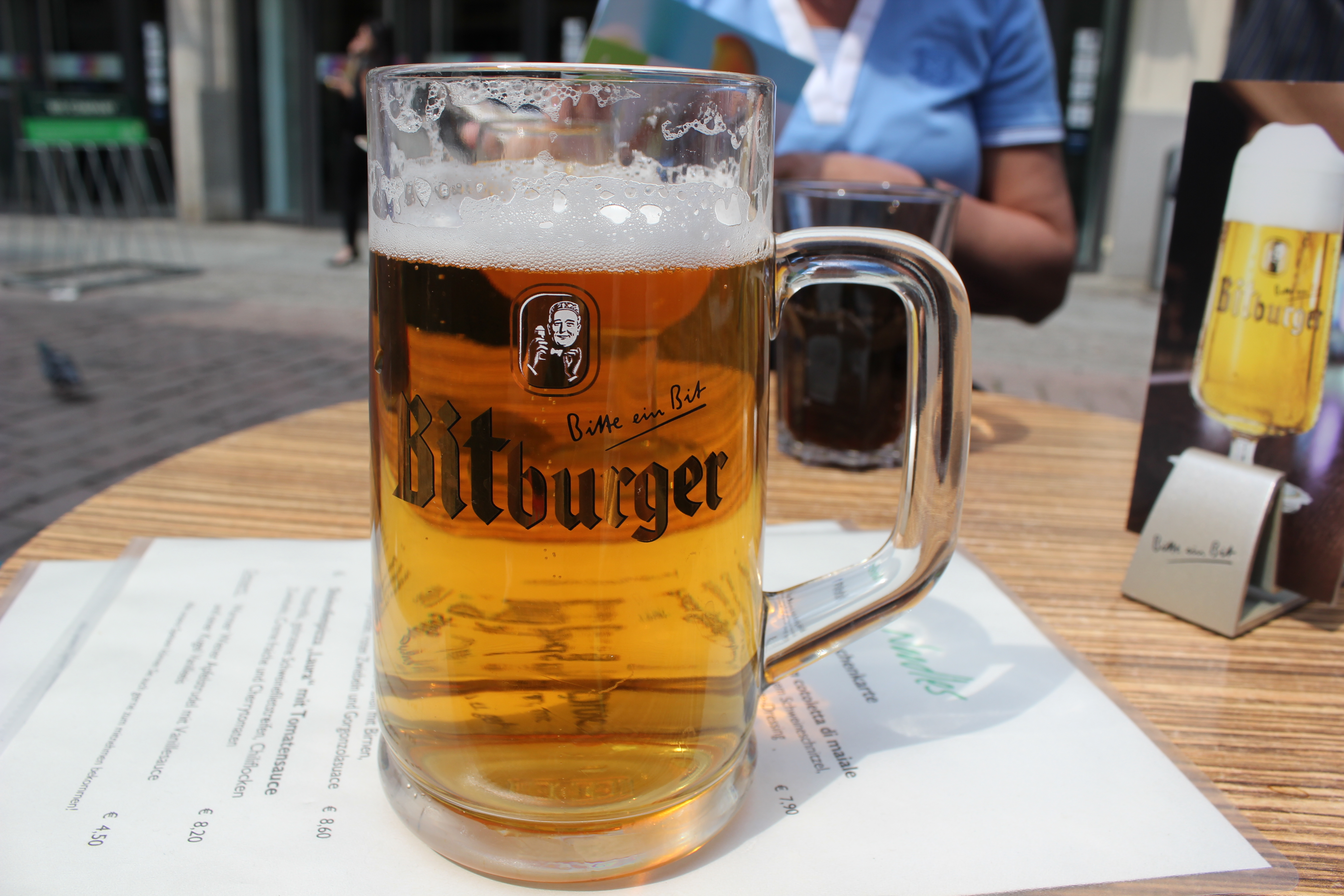 Bitburger Glass in Berlin, Germany.